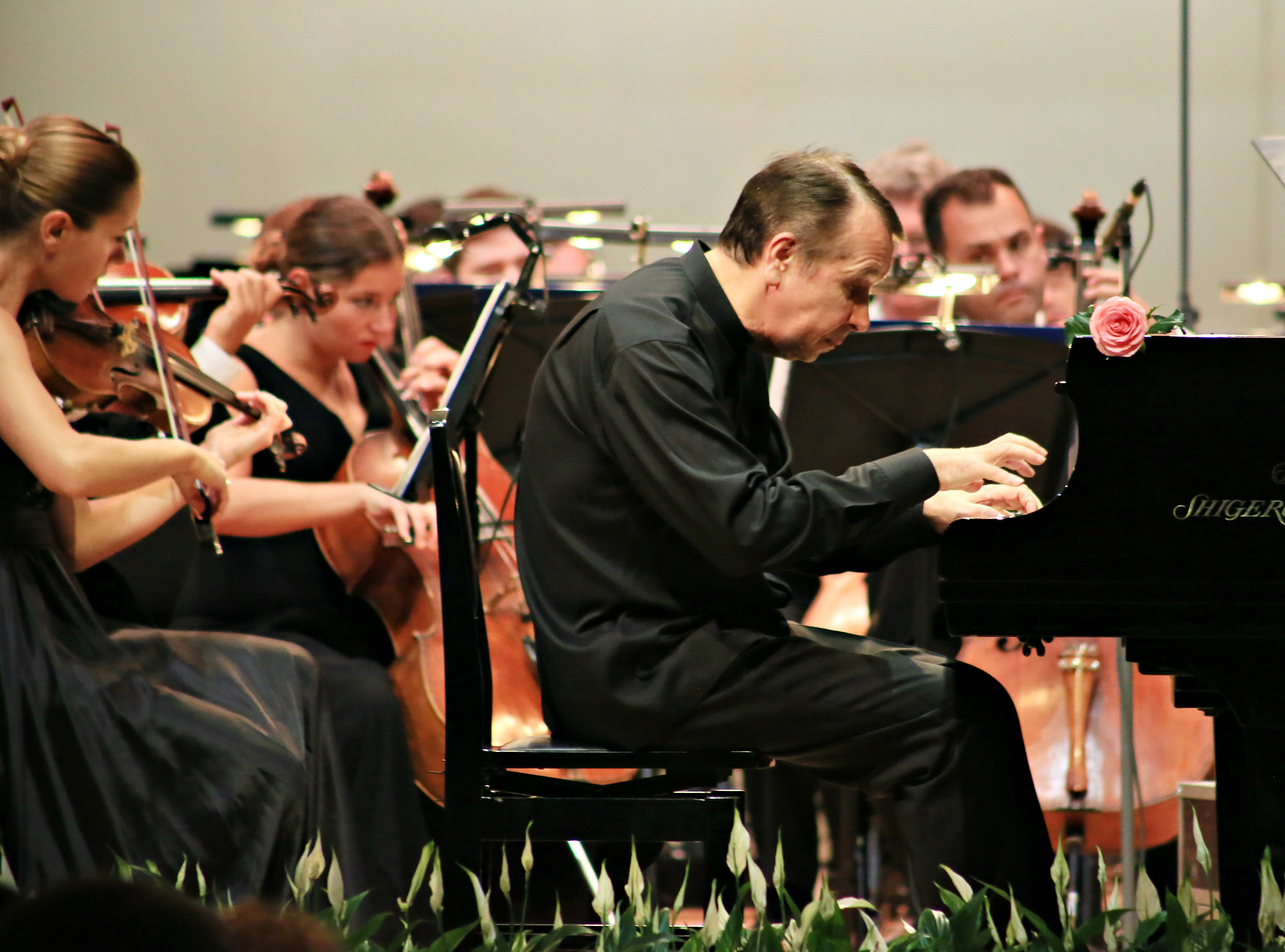 Russian pianist, conductor and composer Mikhail Pletnev.